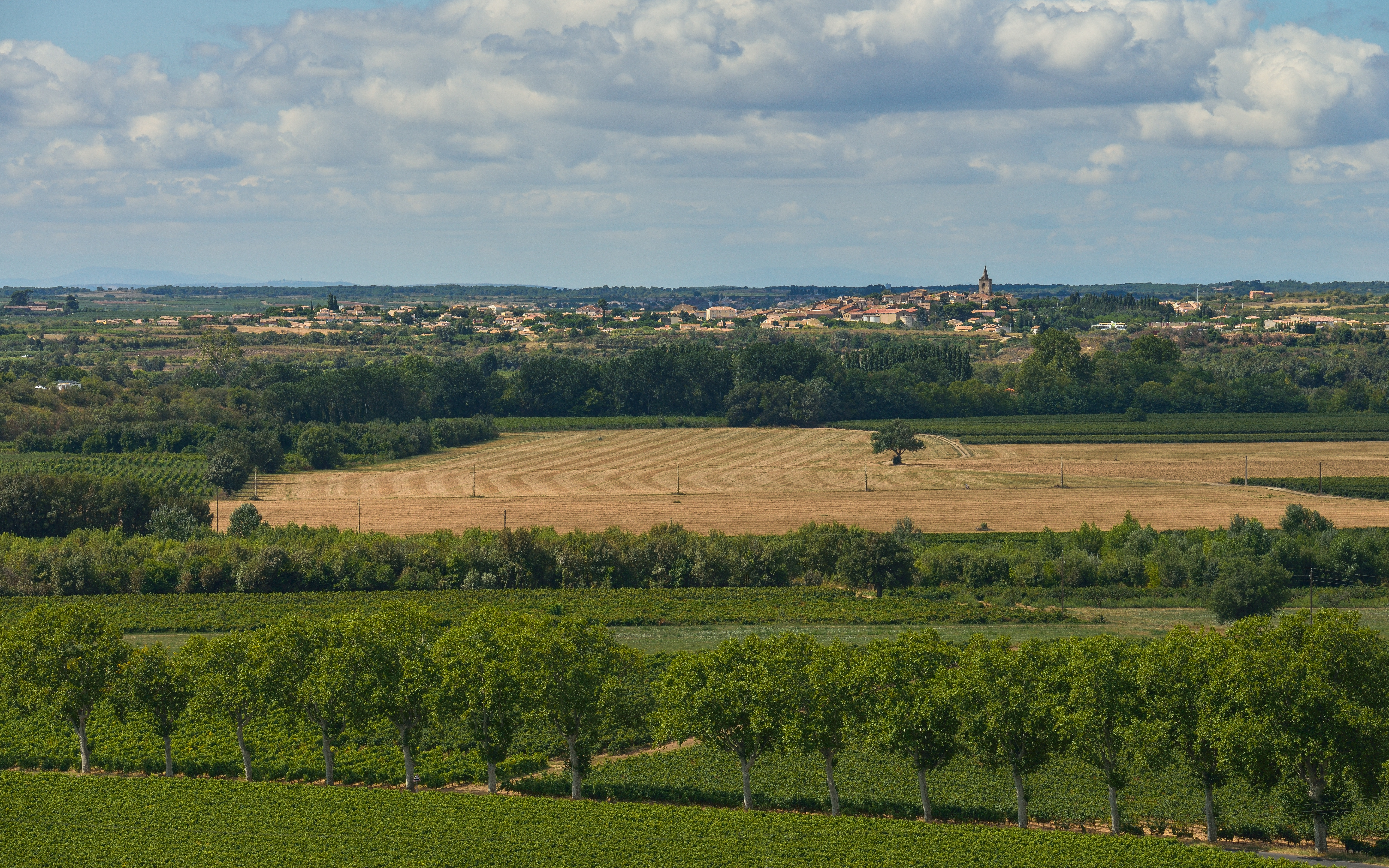 Nézignan-l'Évêque from the East in Castelnau-de-Guers, Hérault, France.